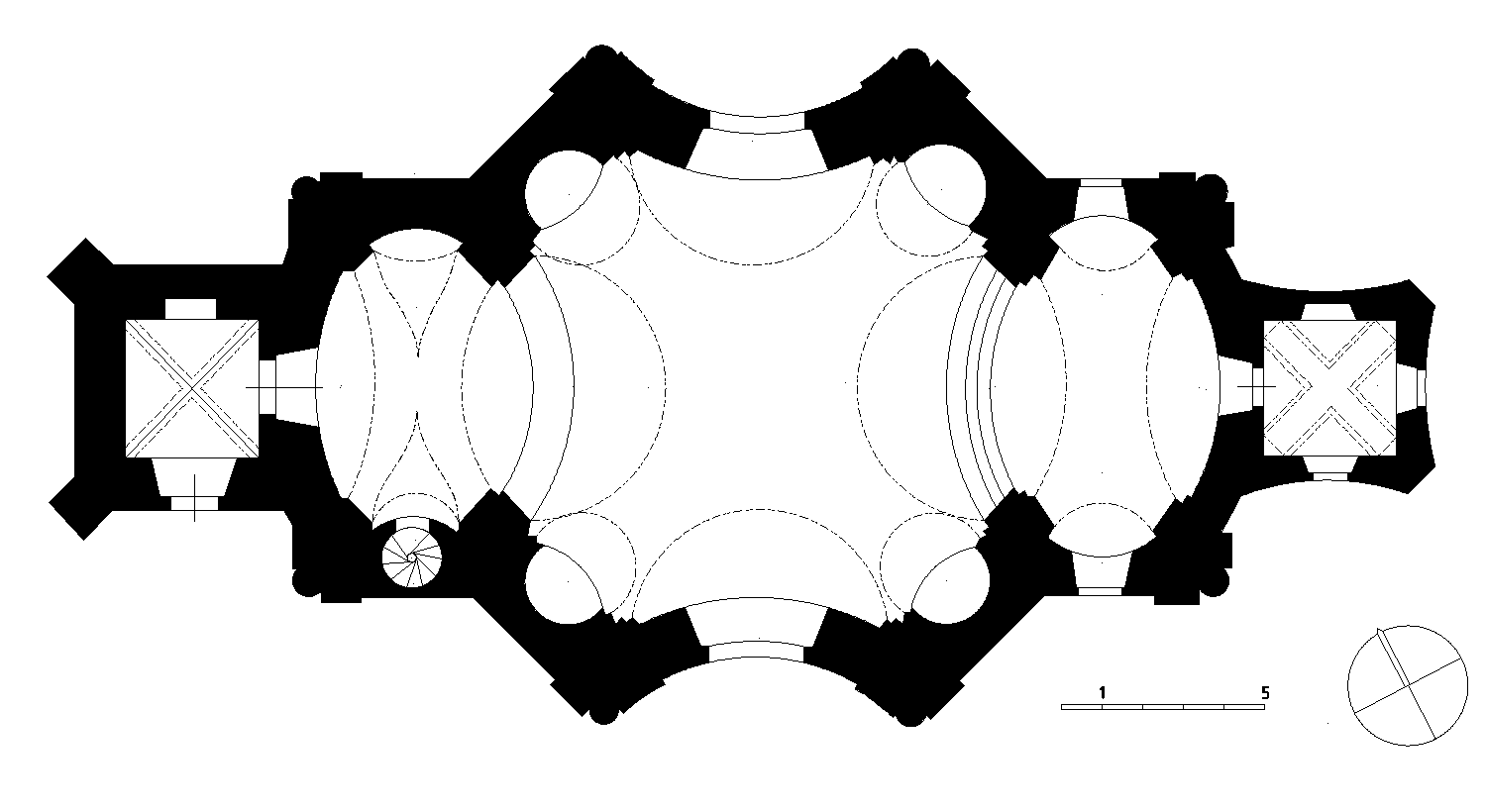 plan of church in Počáply (Terezín), redrawing of scan from book "Kilián Ignác Dientzenhofer a umělci jeho okruhu"